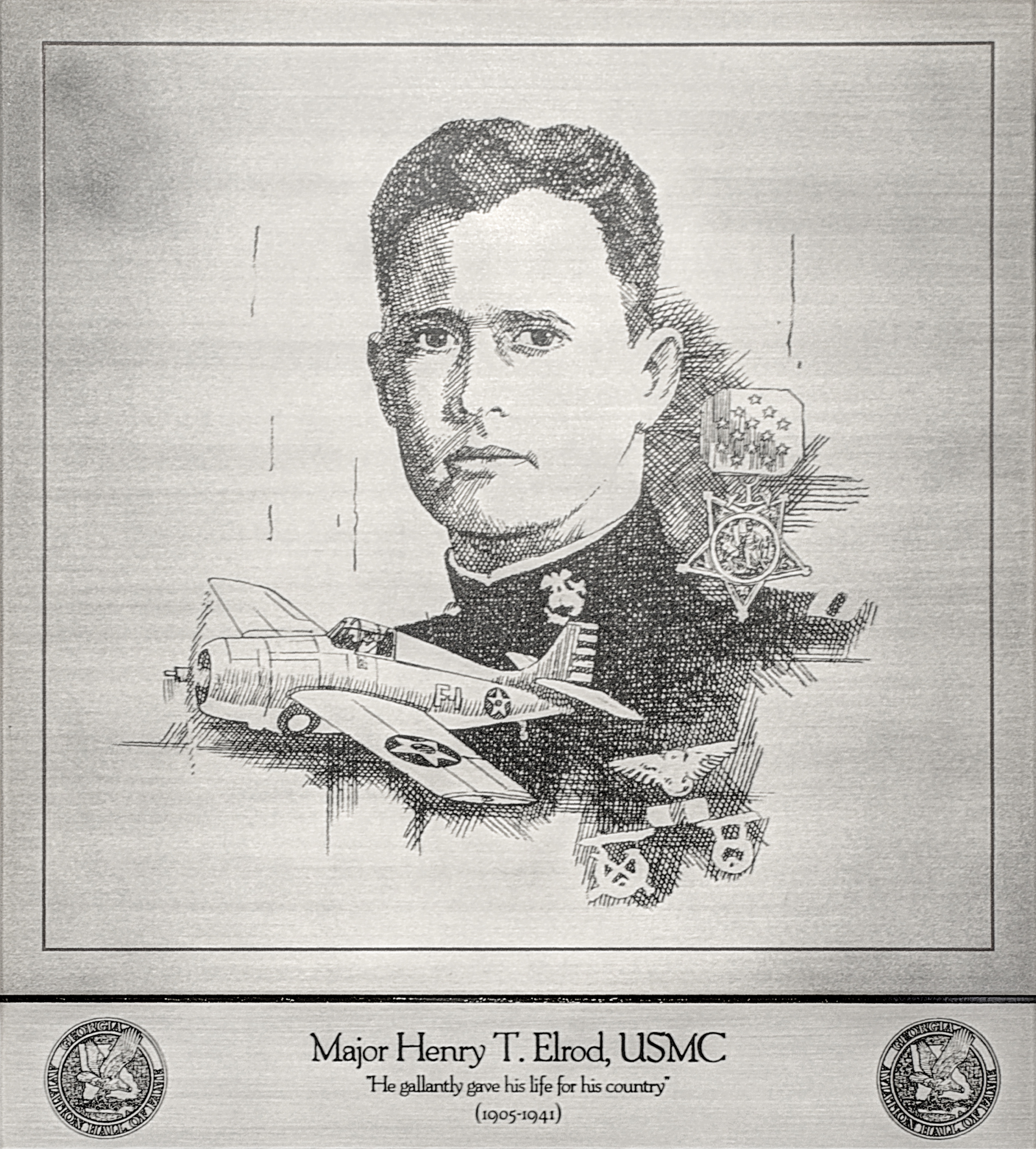 Major Henry T. Elrod, USMC (1905 - 1941)